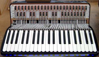 The inside part of the keyboard of an accordion, showing the keyboard and machinery.